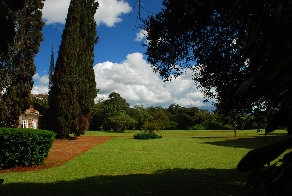 Backyard at the Karen Blixen Museum in Nairobi Kenya - depicted in the movie "Out of Africa" Website